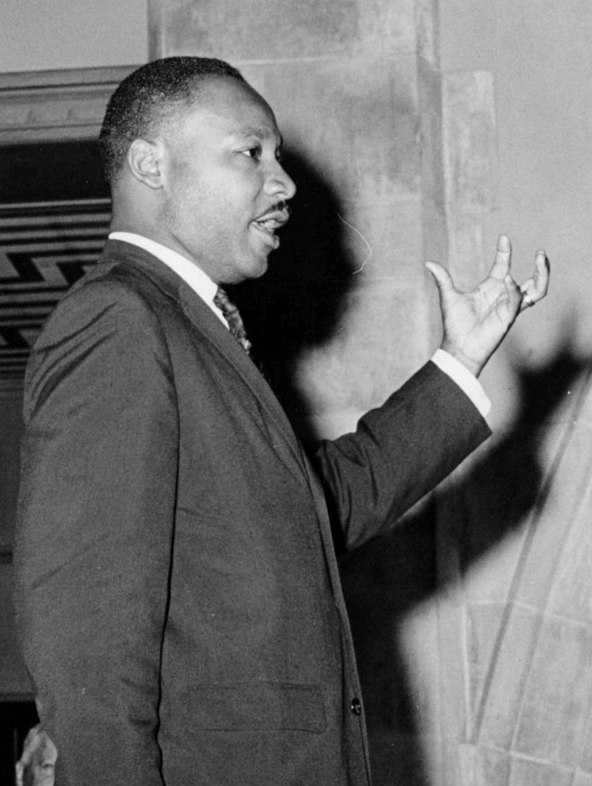 Photo of Martin Luther King speaking in Cleveland in 1963.